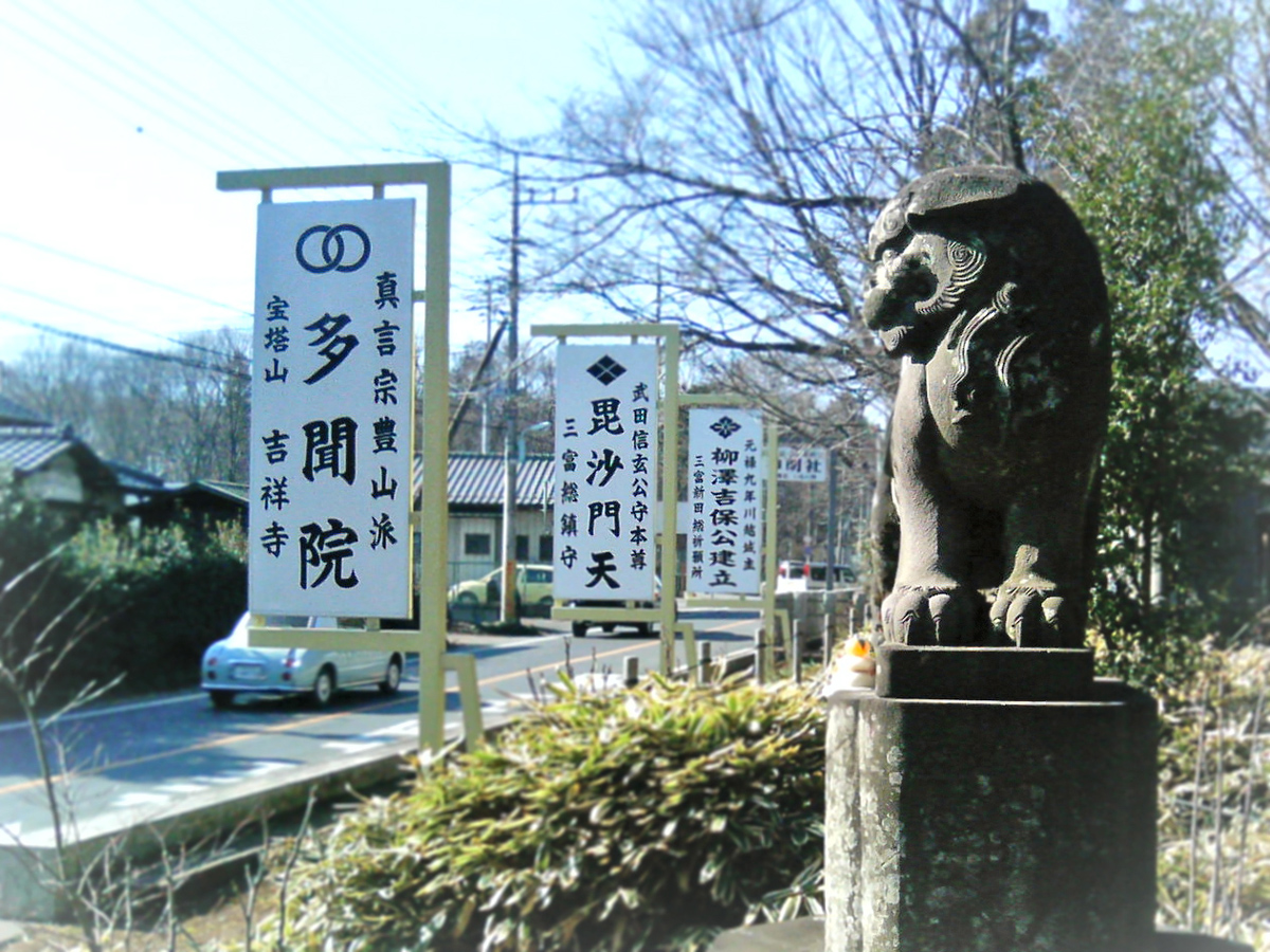 Tamon'in - Tokorozawa, Japan. a komainu and the signages at the entrance.